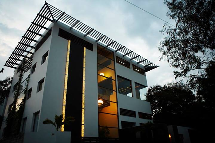 Shilpa Architects Global Design Headquarters, Chennai - IGBC LEED Platinum Rated Building